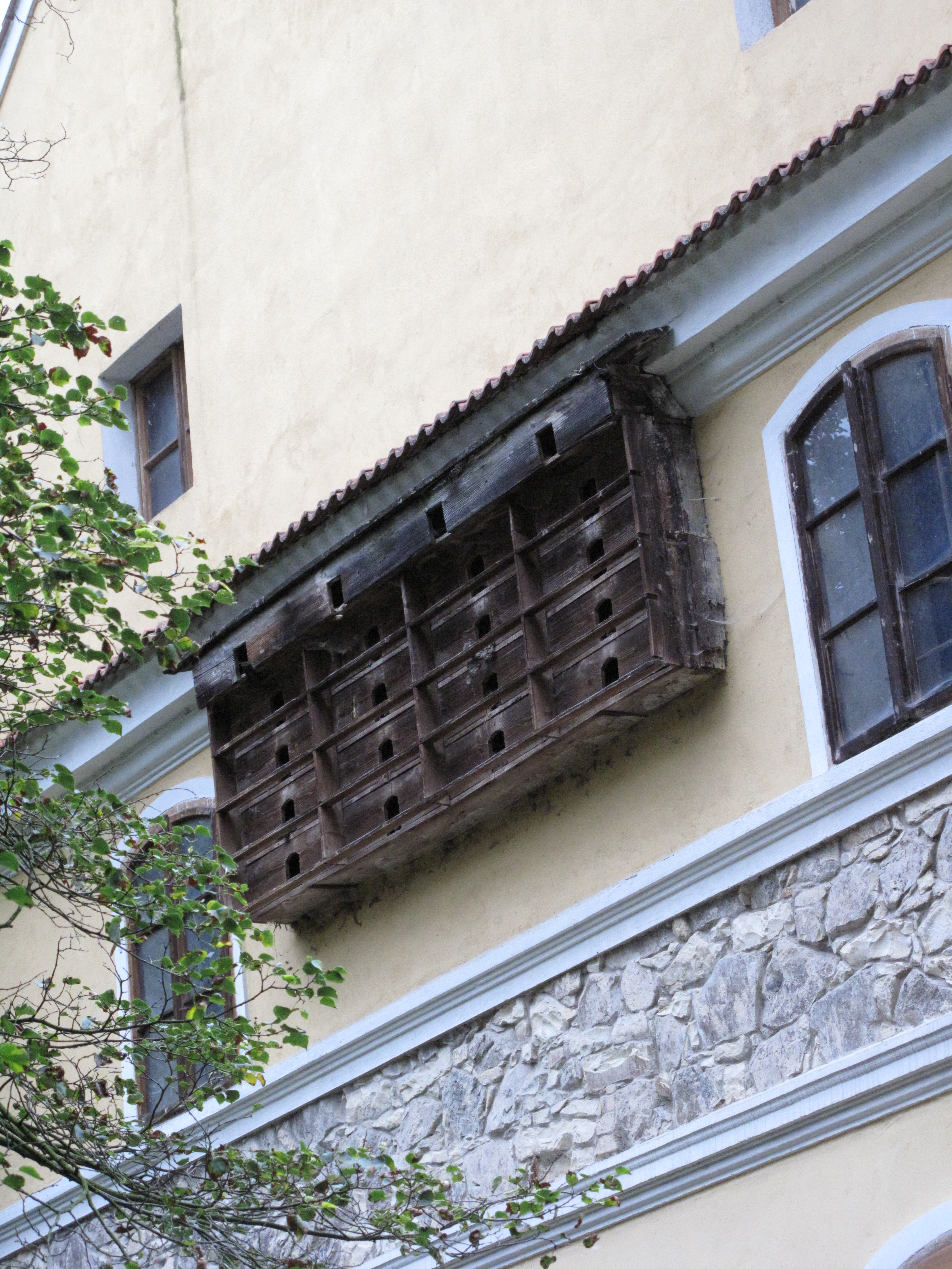 Dovecote on Lucký mlýn (Lucký Mill) on Modla Stream, Litoměřice District, Czech Republic.